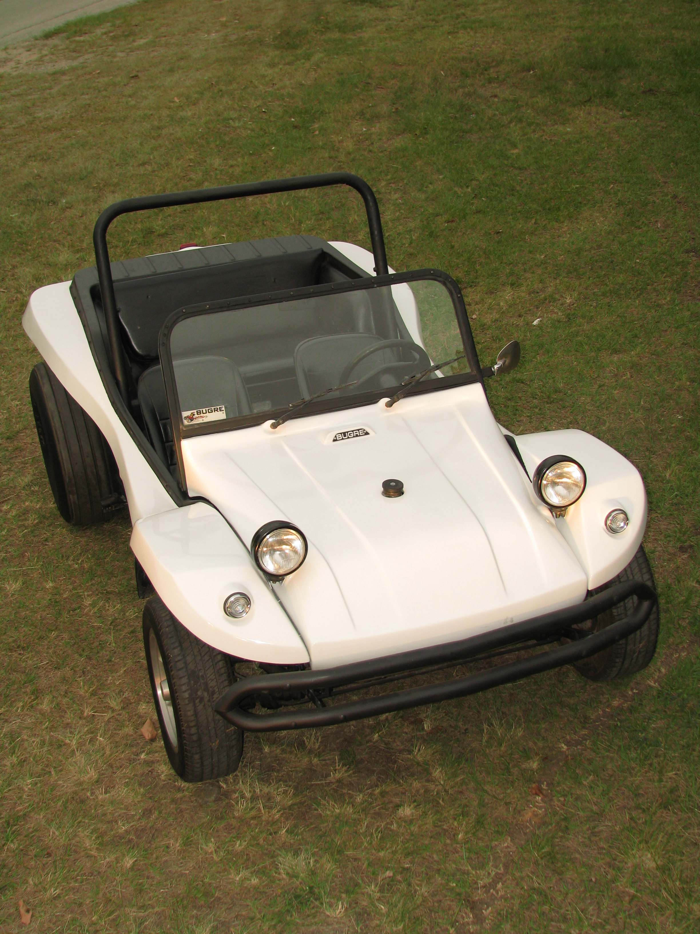 Bugre II, a buggy made in Brazil, in the early 70's.